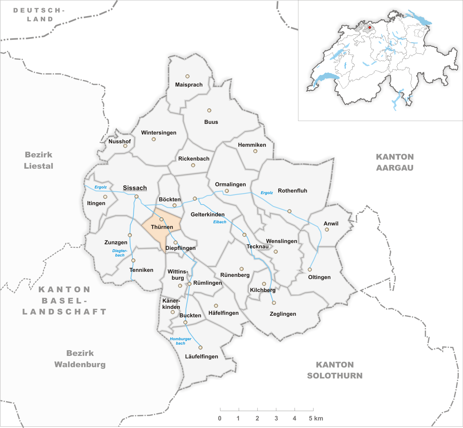 Municipality Thürnen